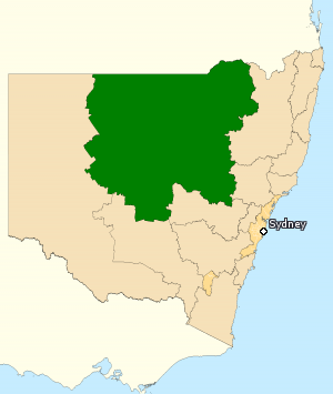 This image incorporates data that is: © Commonwealth of Australia (Australian Electoral Commission) 2009 Division of Parkes 2010